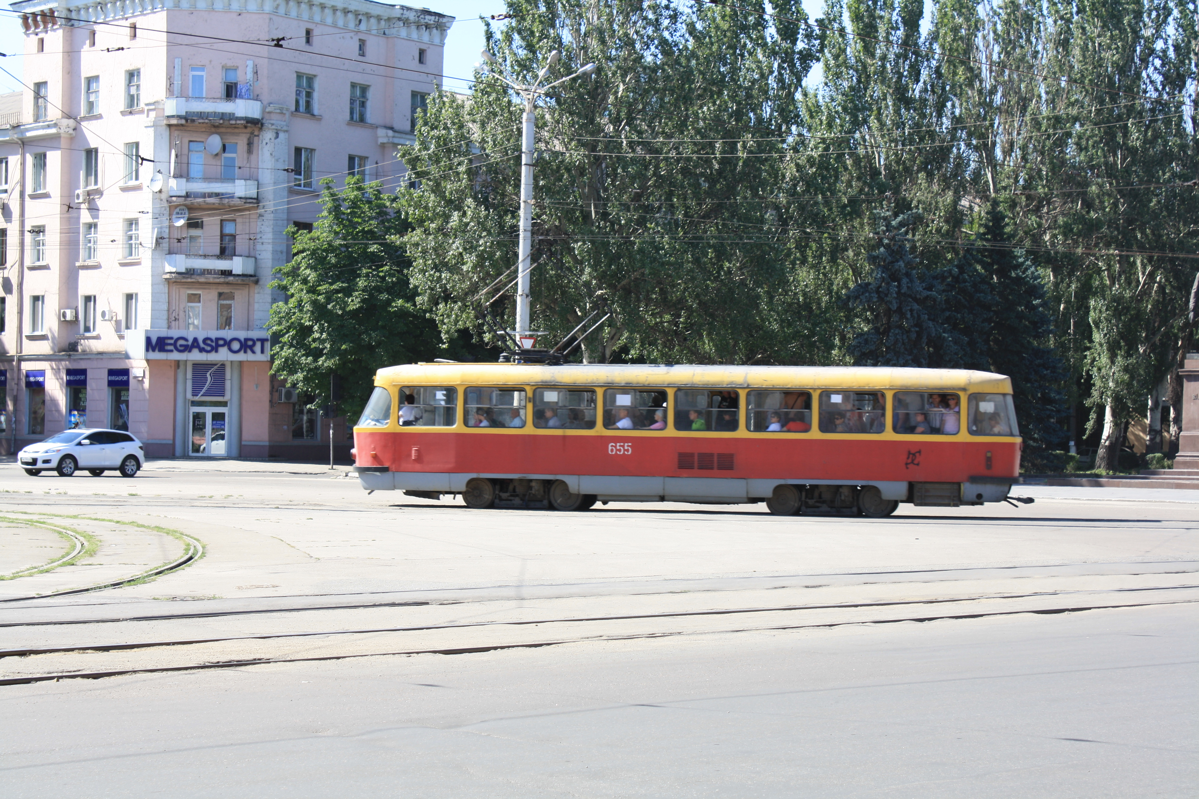 Tram Tatra-T3 in Dniprodzerzhynsk